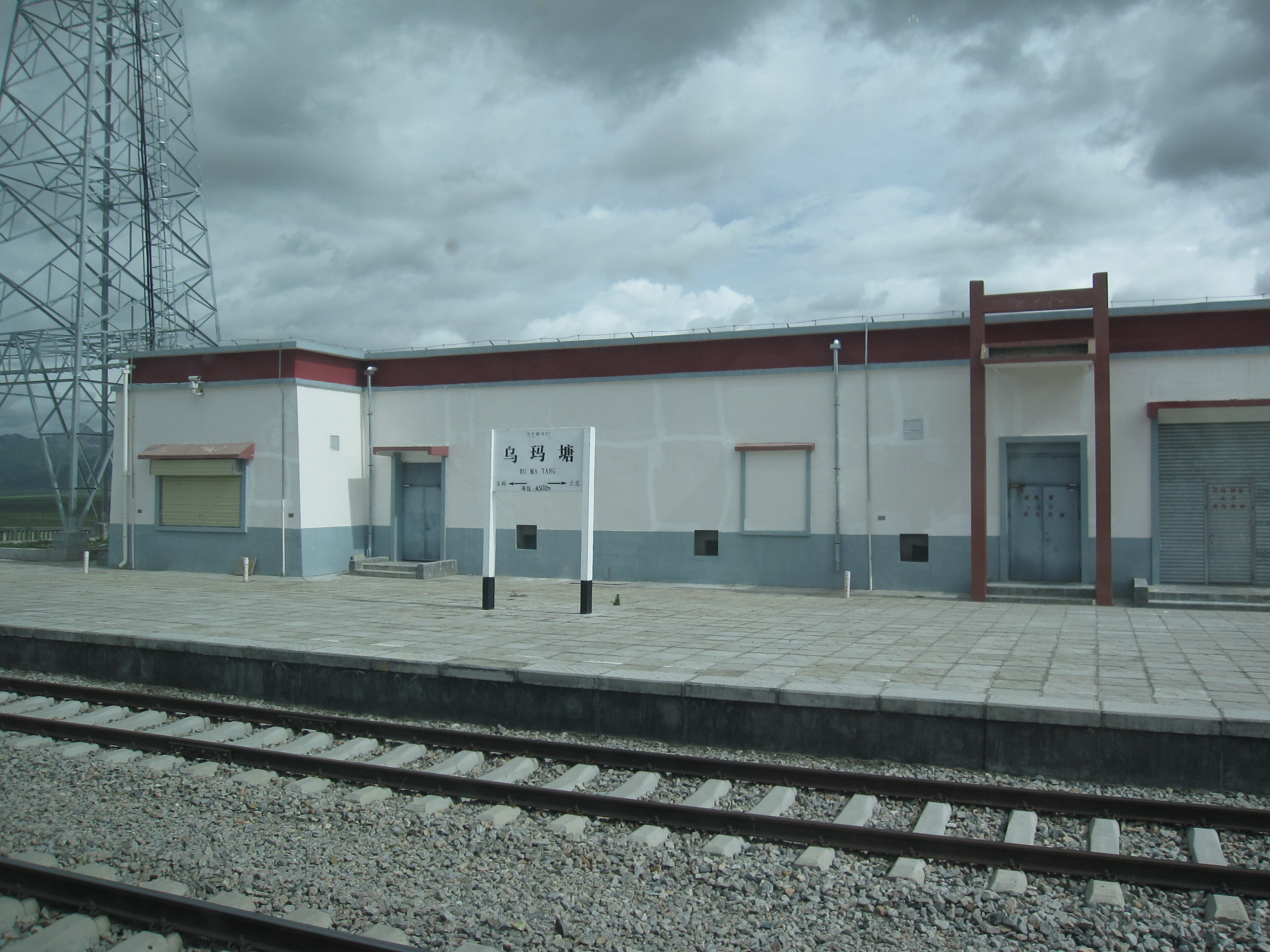 Two hours into the train ride and probably 150-200 km north-east of Lhasa, we passed this station: Wu Ma Tang at en elevation of 4502 m. From now on we would not drop below 4500 m for the rest of the day, and for the next few hours we would slowly climb to 5000 m - and higher - not dropping below 4800 m until well into the Quinghai province of China! 乌玛塘站